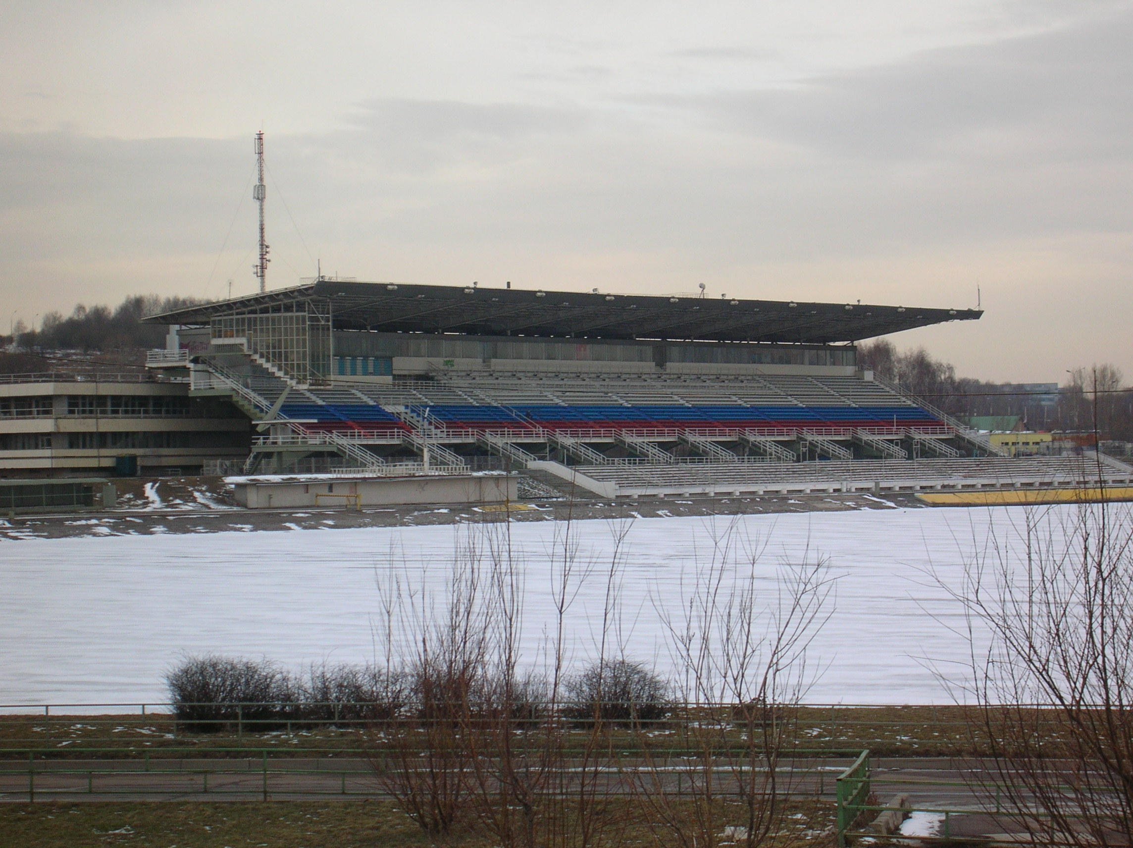 The Moscow Canoeing and Rowing Basin Krylatsky at winter